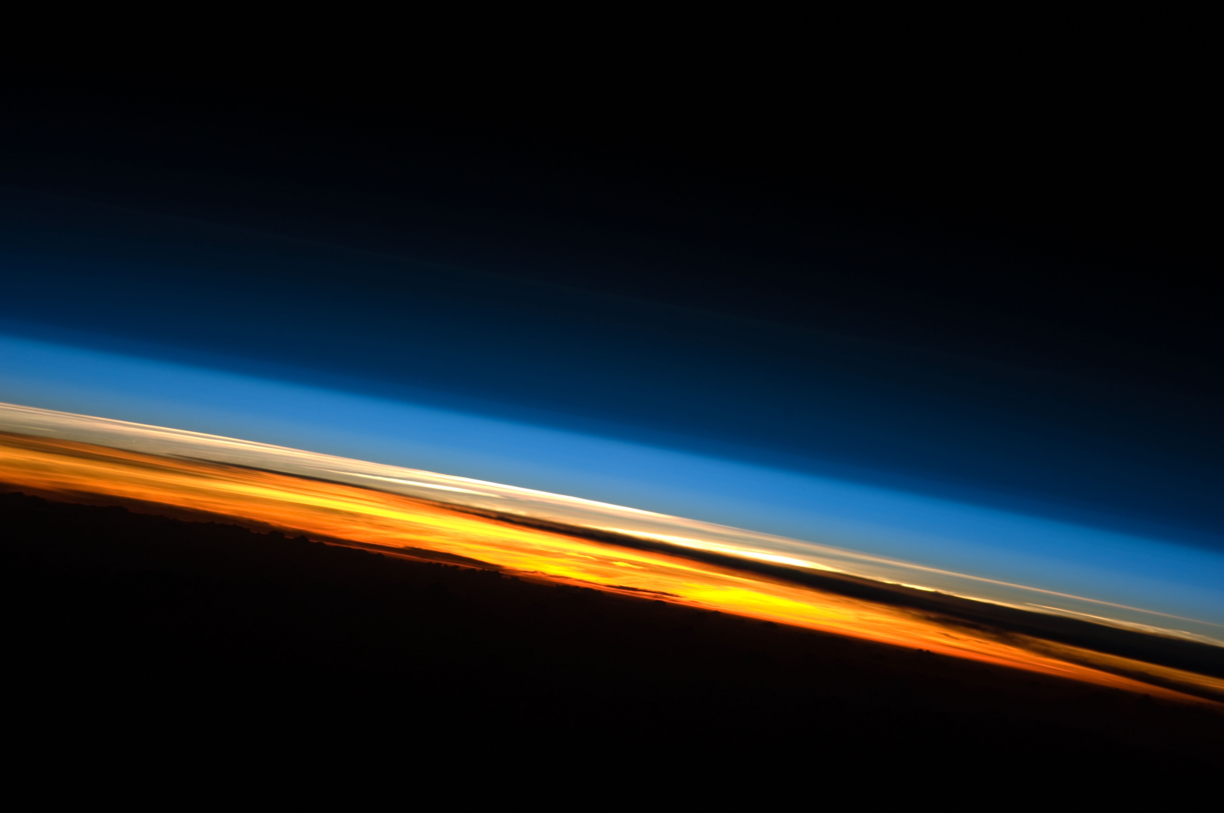 This spectacular image of sunset on the Indian Ocean was taken by astronauts aboard the International Space Station (ISS). The image presents an edge-on, or limb view, of the Earth’s atmosphere as seen from orbit. The Earth’s curvature is visible along the horizon line, or limb, that extends across the image from centre left to lower right. Above the darkened surface of the Earth, a brilliant sequence of colours roughly denotes several layers of the atmosphere. Deep oranges and yellows appear in the troposphere, which extends from the Earth’s surface to 6–20 km high. This layer contains over 80 percent of the mass of the atmosphere and almost all of the water vapour, clouds, and precipitation. Several dark cloud layers are visible within this layer. Variations in the colours are due mainly to varying concentrations of either clouds or aerosols (airborne particles or droplets). The pink to white region above the clouds appears to be the stratosphere; this atmospheric layer generally has little or no clouds and extends up to approximately 50 km above the Earth’s surface. Above the stratosphere, blue layers mark the upper atmosphere (including the mesosphere, thermosphere, ionosphere, and exosphere) as it gradually fades into the blackness of outer space. The ISS was located over the southern Indian Ocean when this picture was taken, with the astronaut observer looking towards the west. Astronauts aboard the ISS see 16 sunrises and sunsets per day due to their high orbital velocity (greater than 28,000 km per hour). The multiple chances for photography are fortunate, as at that speed each sunrise or sunset event only lasts a few seconds! Image acquired with a Nikon D3 digital camera, and is provided by the ISS Crew Earth Observations experiment and Image Science & Analysis Laboratory, Johnson Space Center.